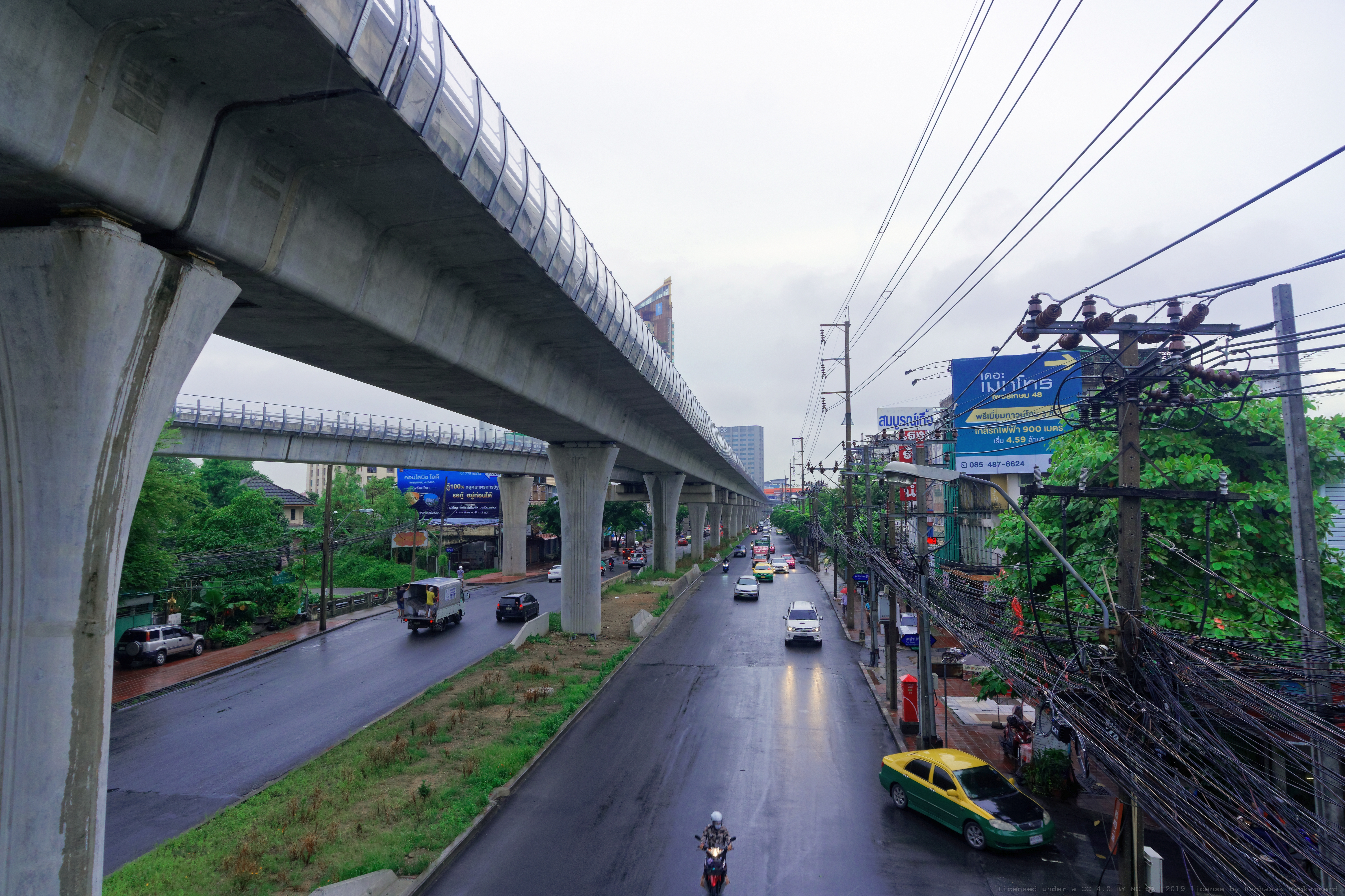 MRT Phetkasem 48 station: Phetkasem road toward Phasi Charoen station. You can see the railway from the depot is merging with the mainline on the left.